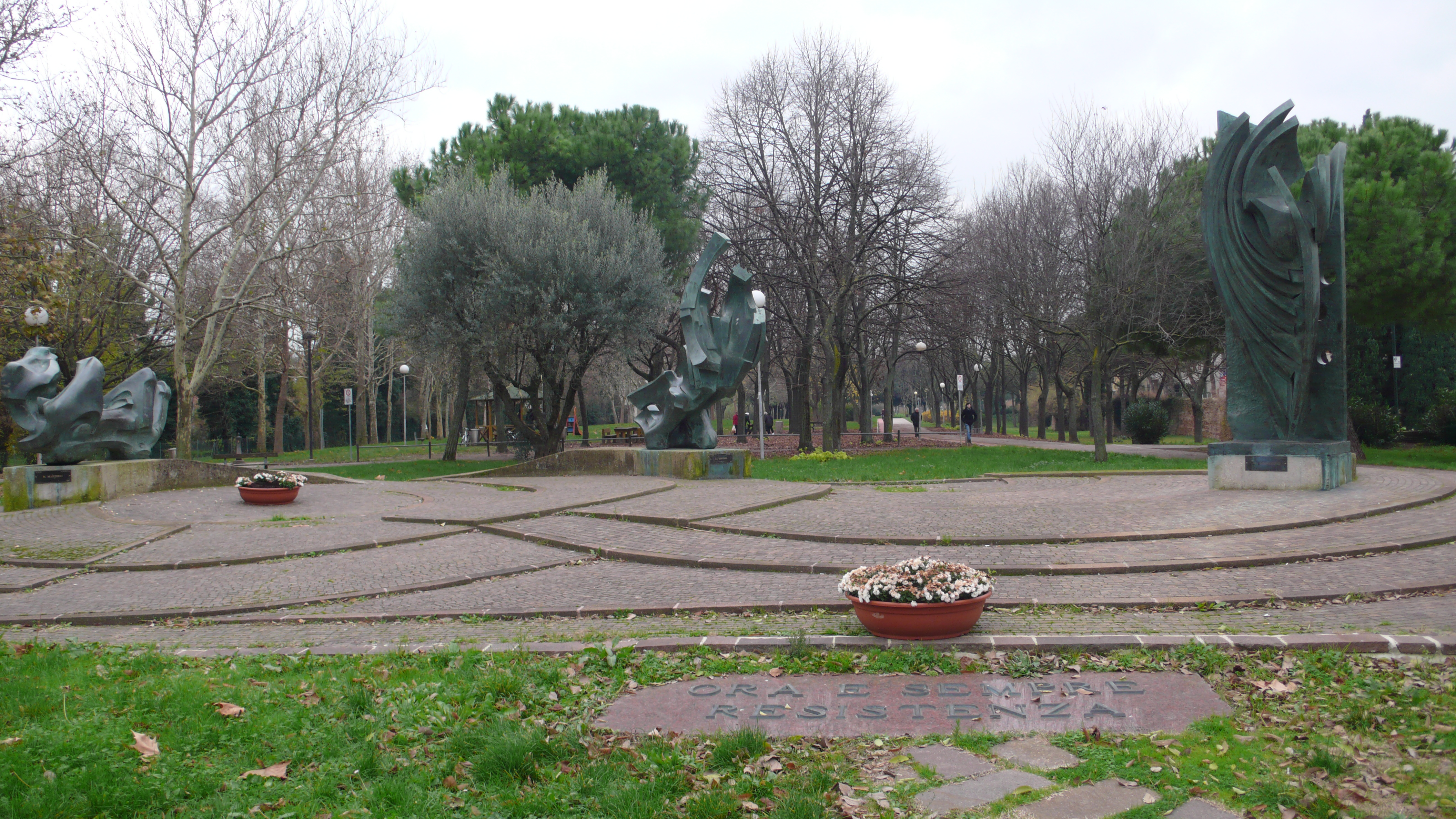 Parco Alcide Cervi / Parco Renzi / Parco Callas, Rimini